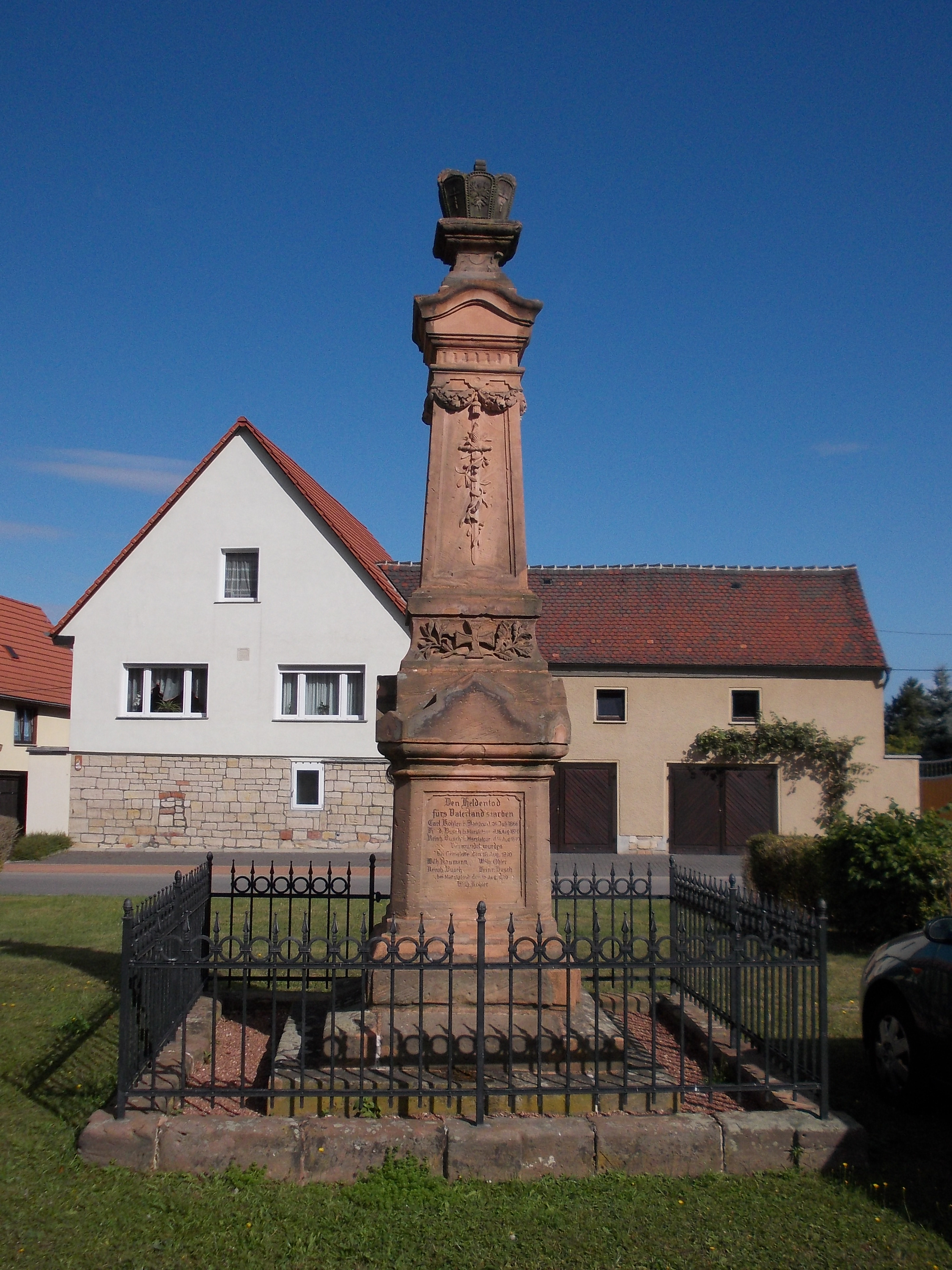 Memorial to the wars of 1866-71 in Leissling (Weissenfels, district: Burgenlandkreis, Saxony-Anhalt)